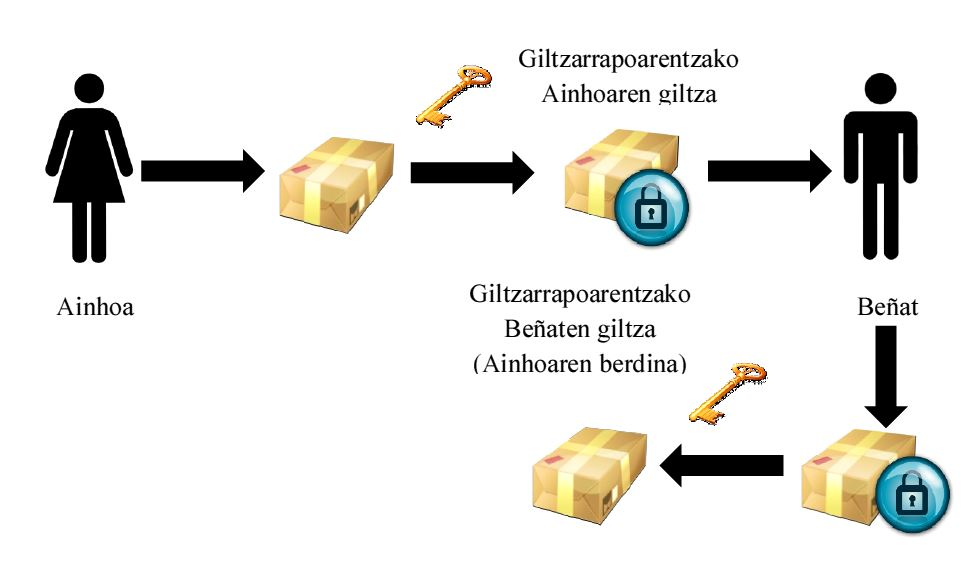 Simetrikoa Analogia